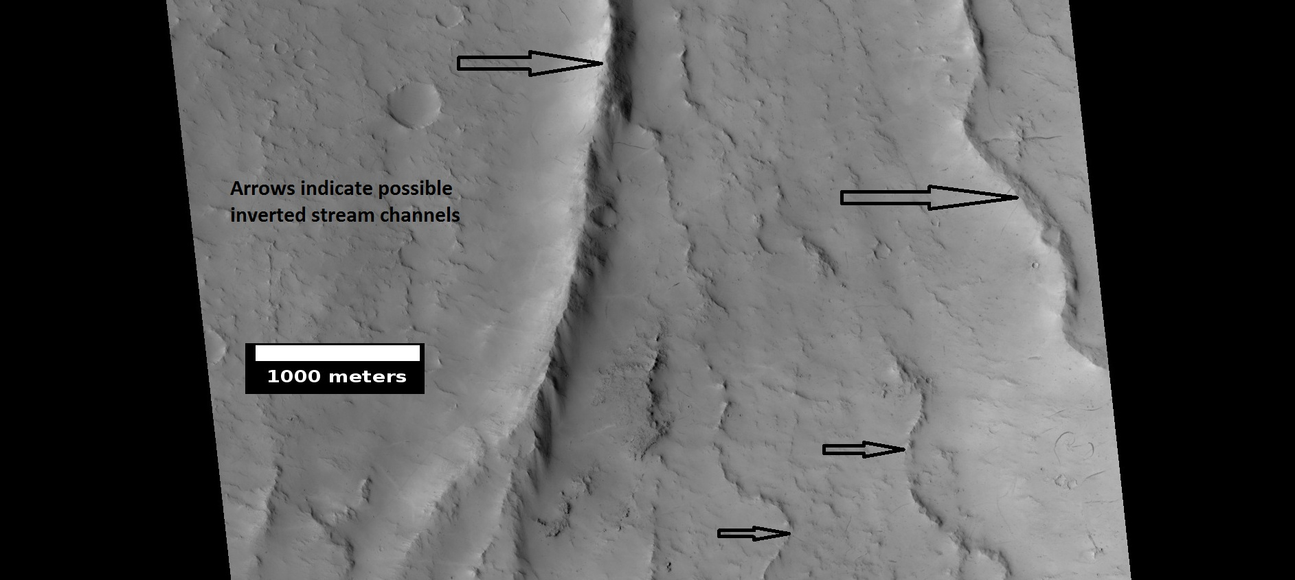 Inverted terrain, as seen by hirise, under HiWish program. Location is 23.8 N and 182.7 E.